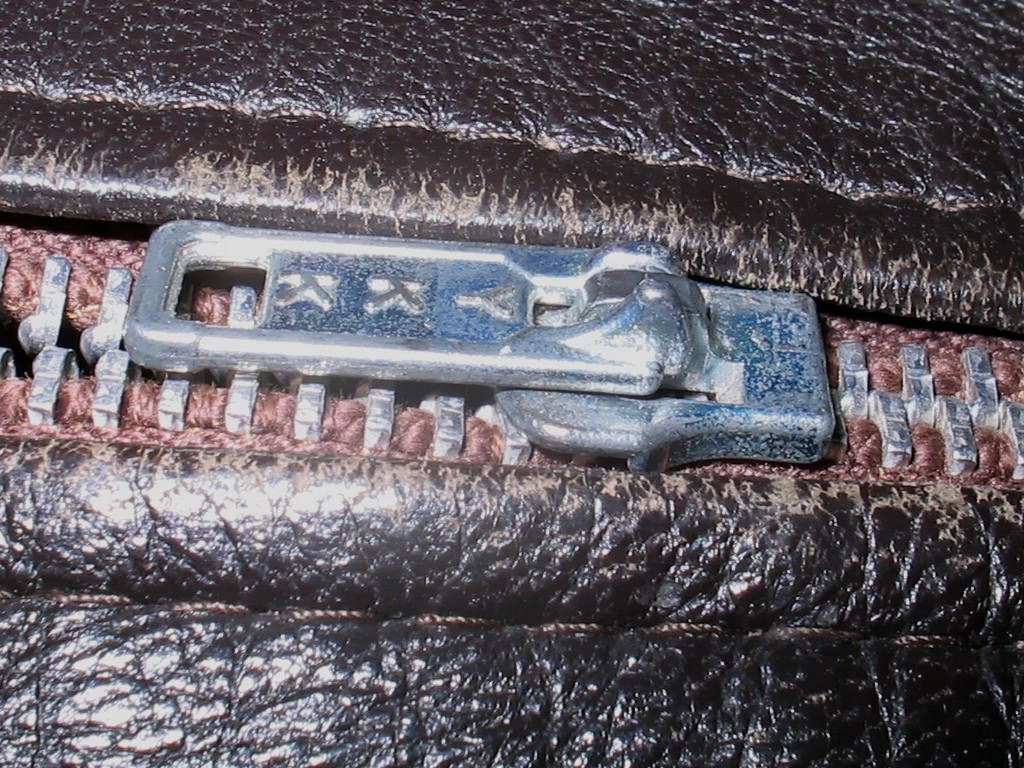 Zipper with slider equipped with a safety catch, characterized by a drawer fitted with a latch, which in the lowered position engages the teeth of the chain metal spiral.